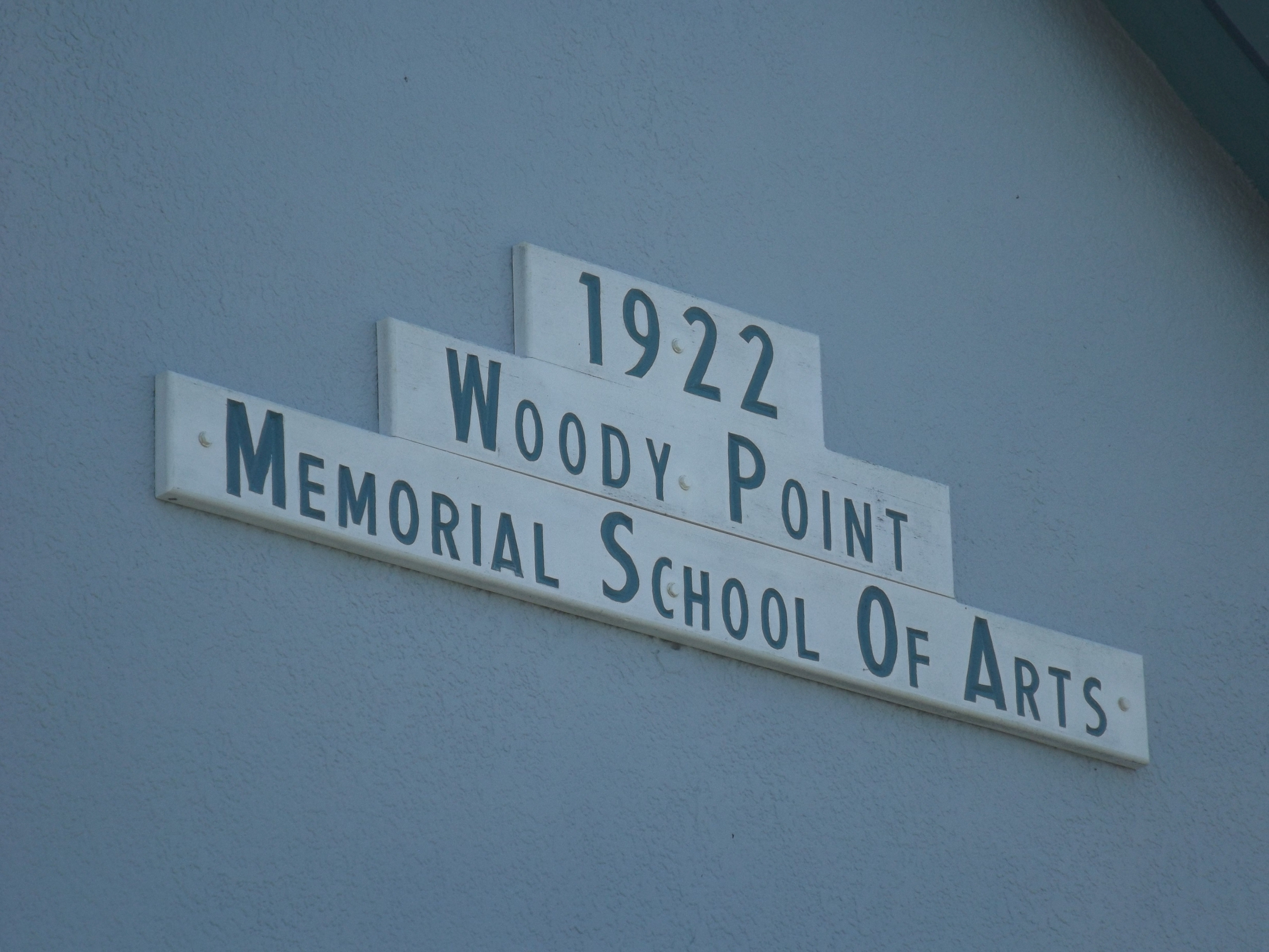 Photo of signage at Woody Point Memorial Hall, Woody Point, Moreton Bay Region, Queensland, Australia.